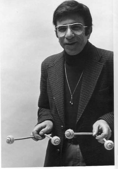 Ray Alexander, jazz vibist